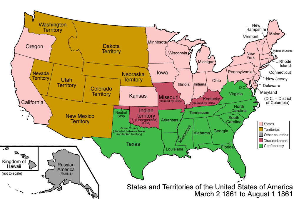 Map of the states and territories of the United States as it was from March 1861 to August 1861. On March 2 1861, Dakota Territory was split from Nebraska Territory, and gained the northern area of unorganized land; also, Nevada Territory was split from Utah Territory. On August 1 1861, the Confederacy established Arizona Territory, consisting of the southern half of the Union's New Mexico Territory; the Union still claimed the whole territory.